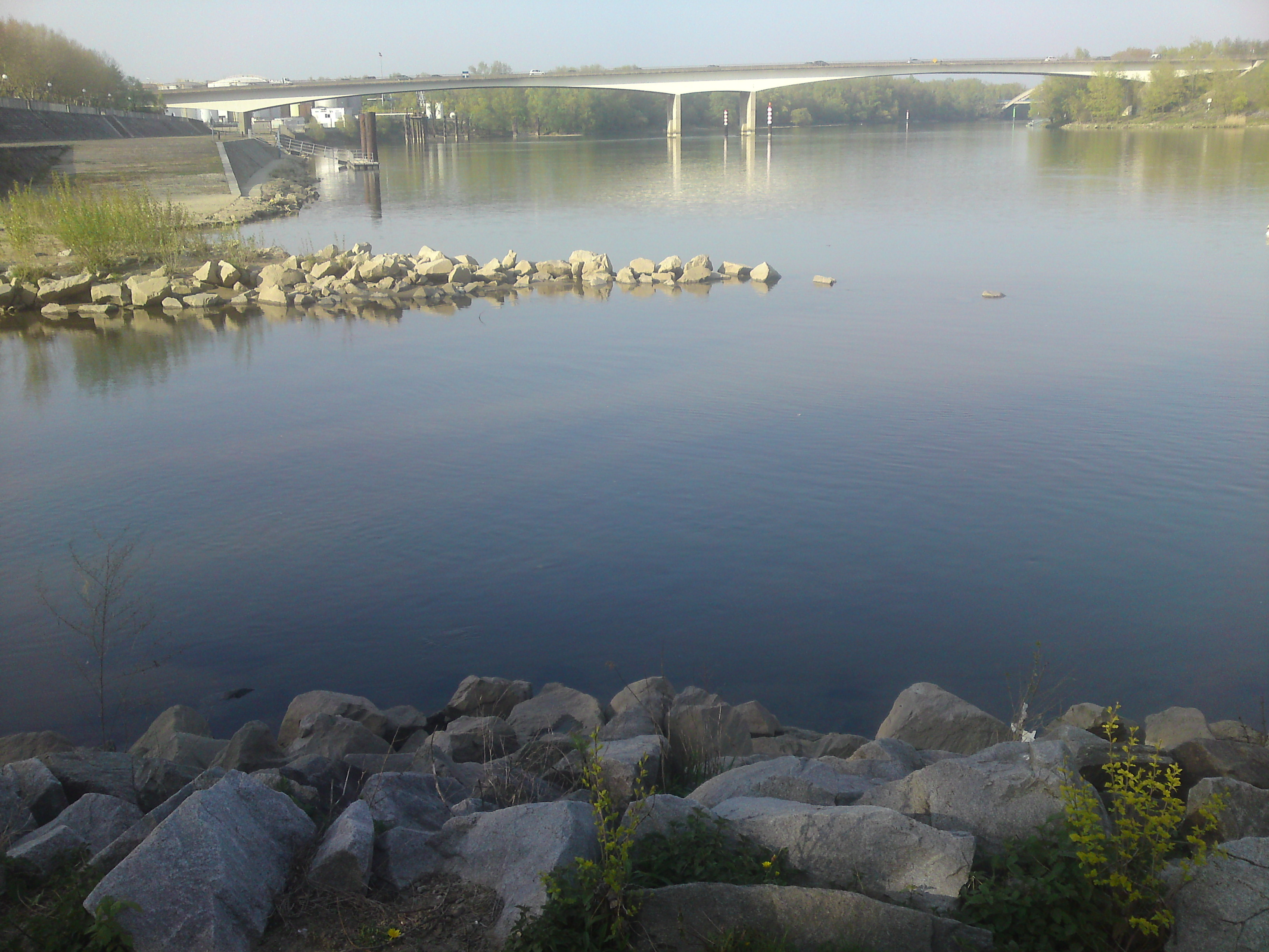 The confluence beetween the Gier and the Rhone in Givors (69).